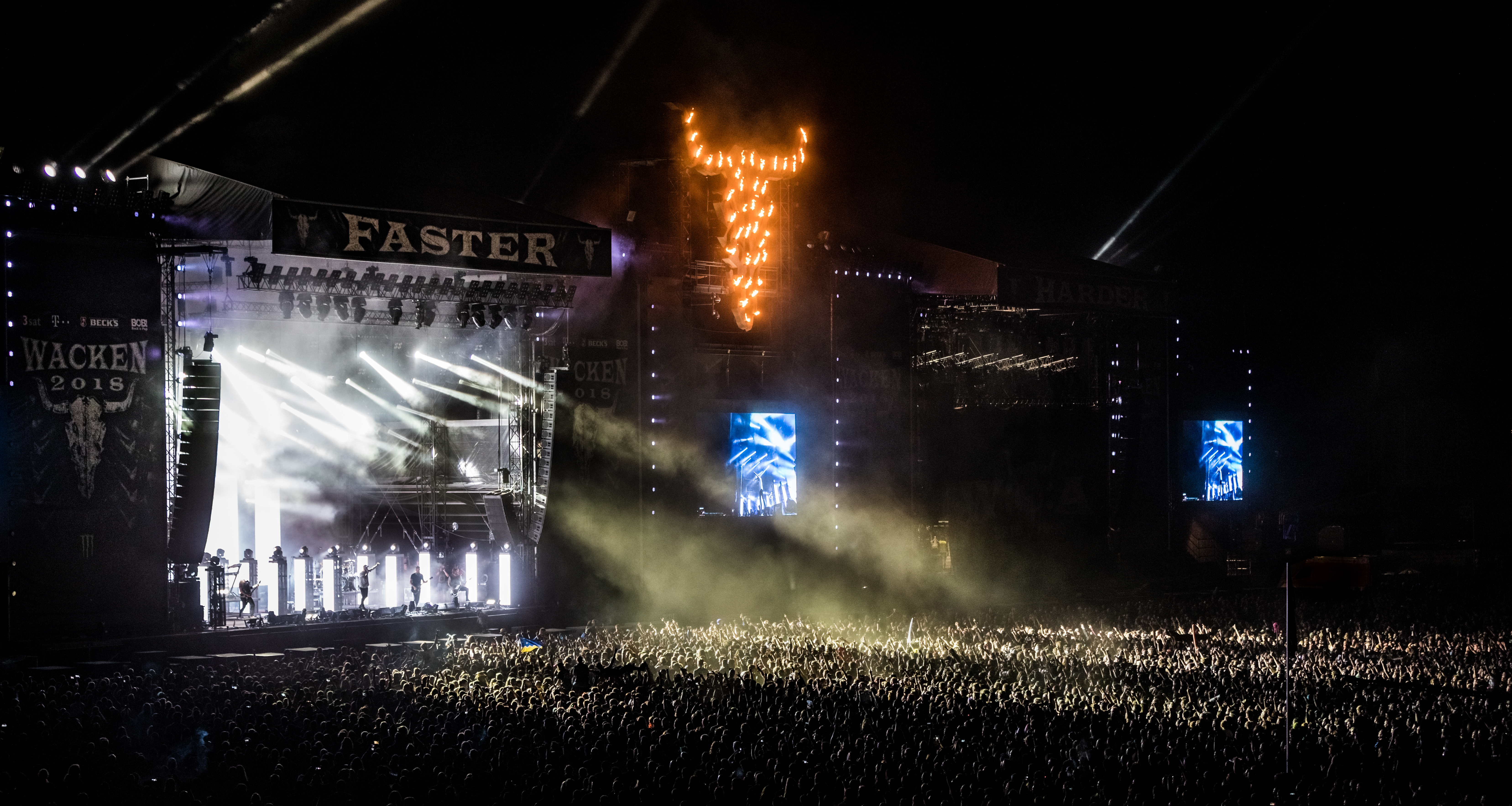 In Flames - Wacken Open Air 2018